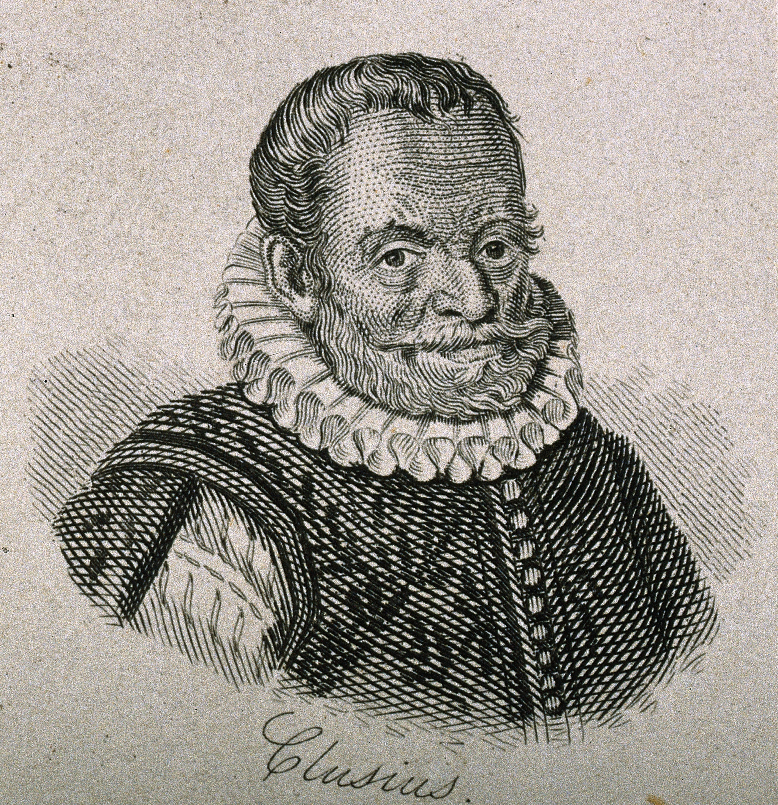 Portrait of Charles de l'Écluse, L'Escluse, or Carolus Clusius (1526 – 1609), a Flemish doctor and pioneering botanist. Iconographic Collections Keywords: Carolus Clusius